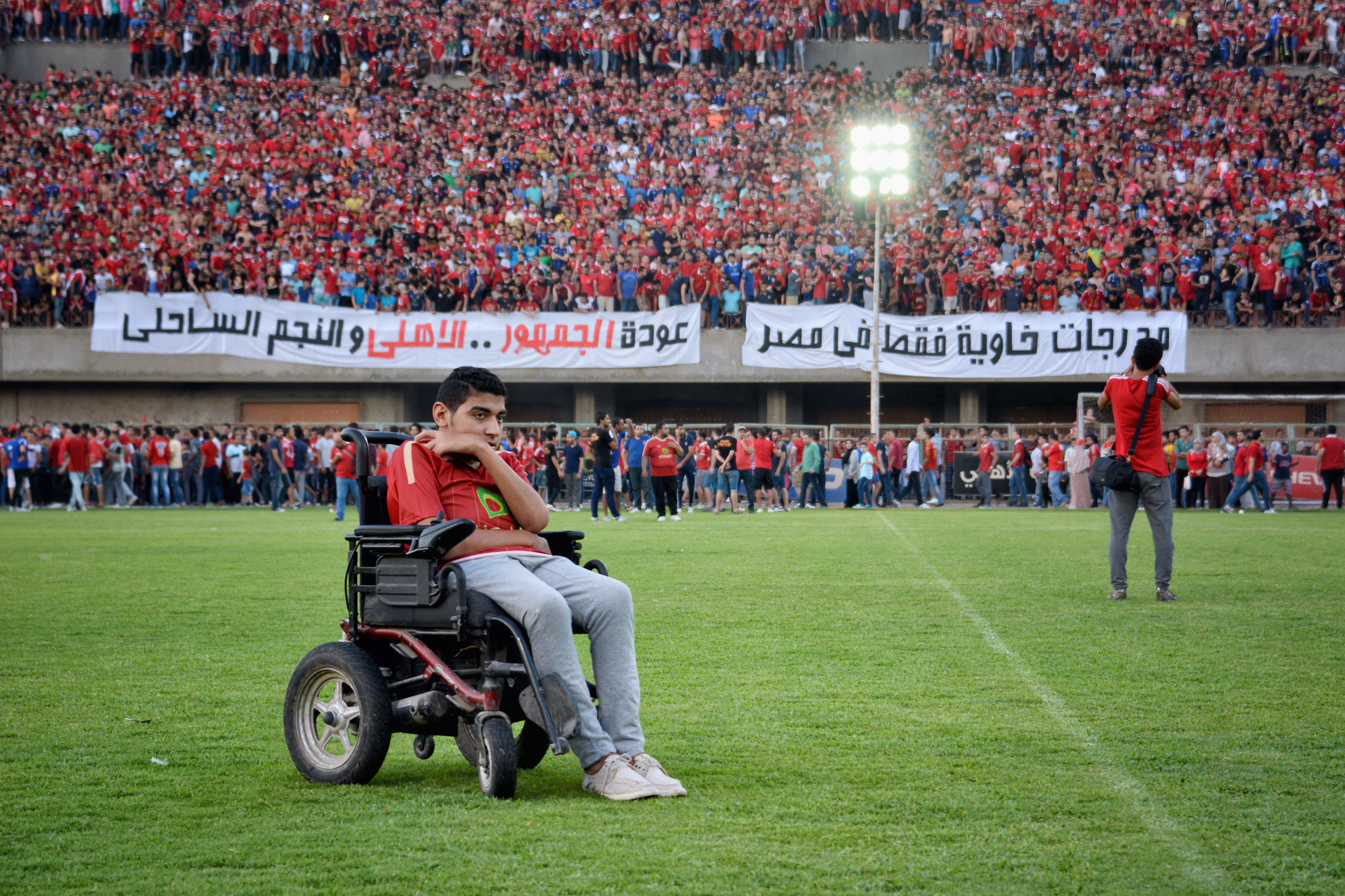 WIKI LOVES AFRICA 2019 THEME: PLAY This is an image with the theme "Play" from: Egypt